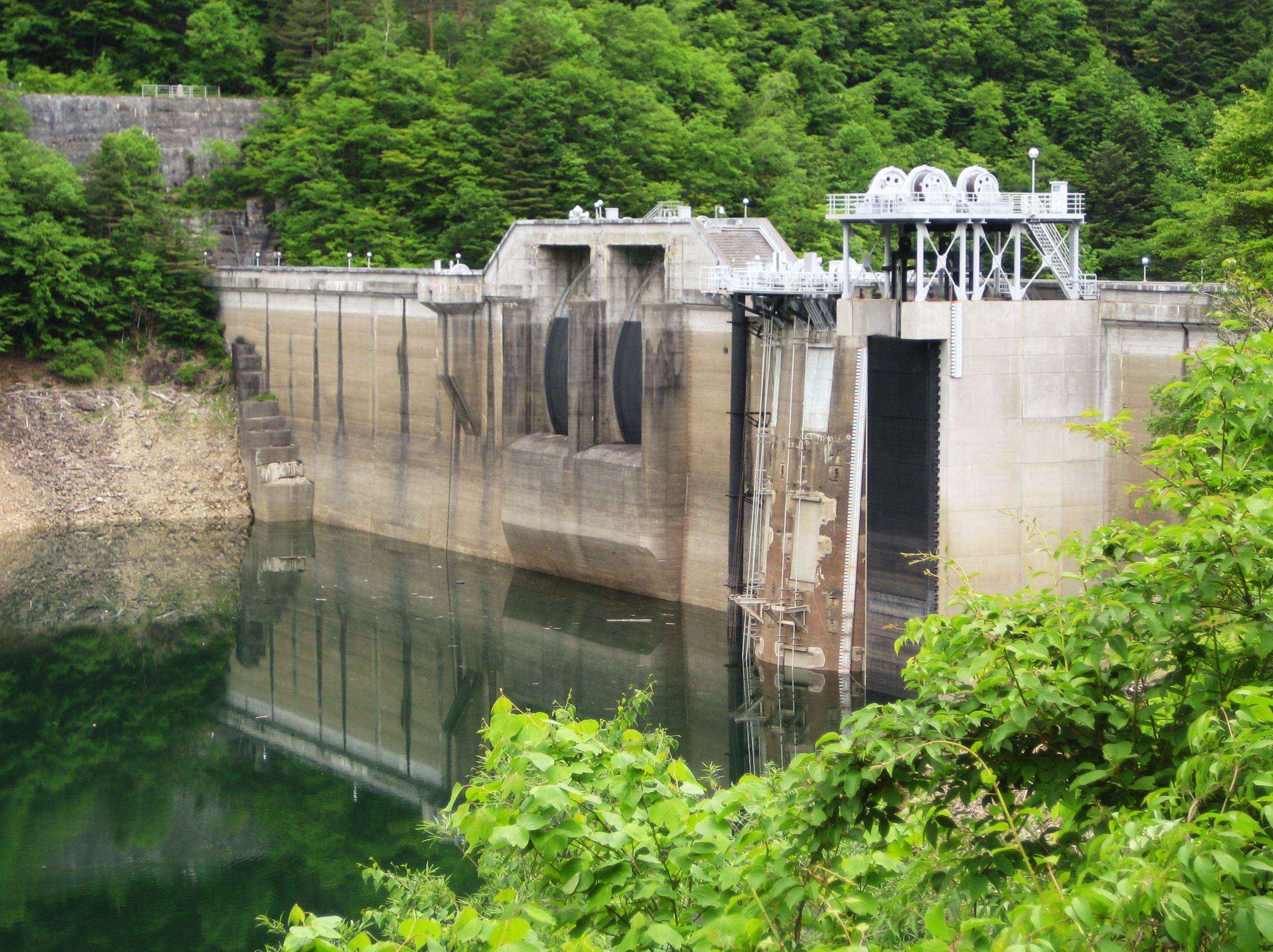 Asahi Dam lake in Takayama, Gifu.